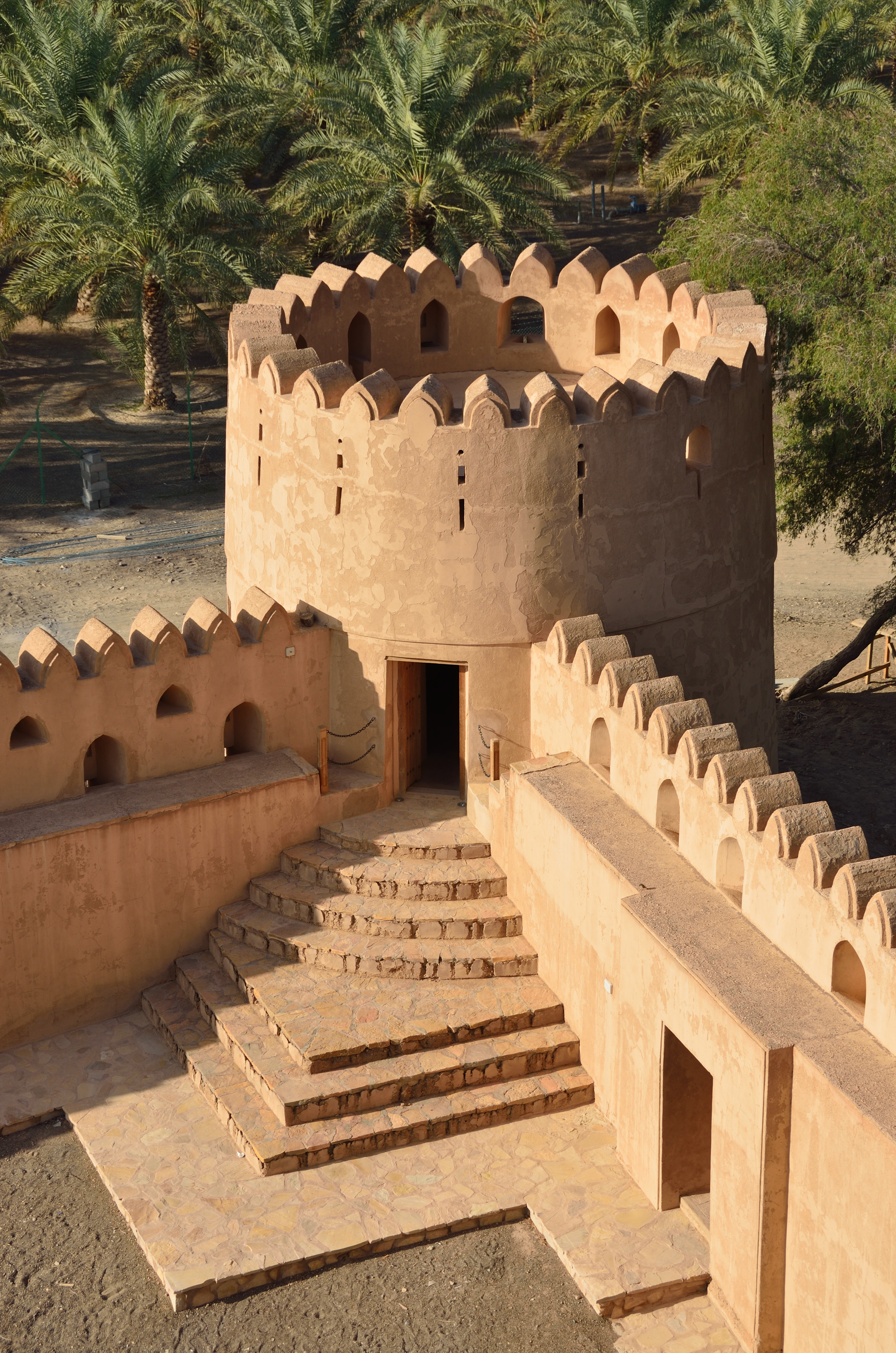 Jabreen Castle (Oman)